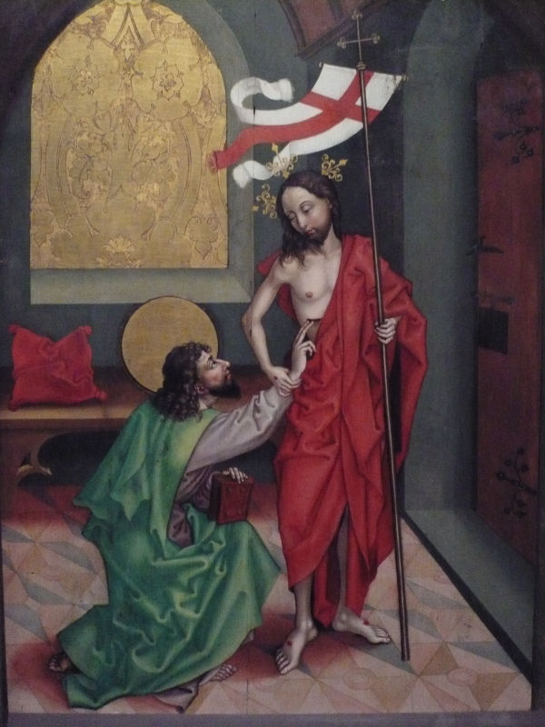 Martin Schongauers Altar (of omgeving) (Retable des Dominicains) 1450-1491